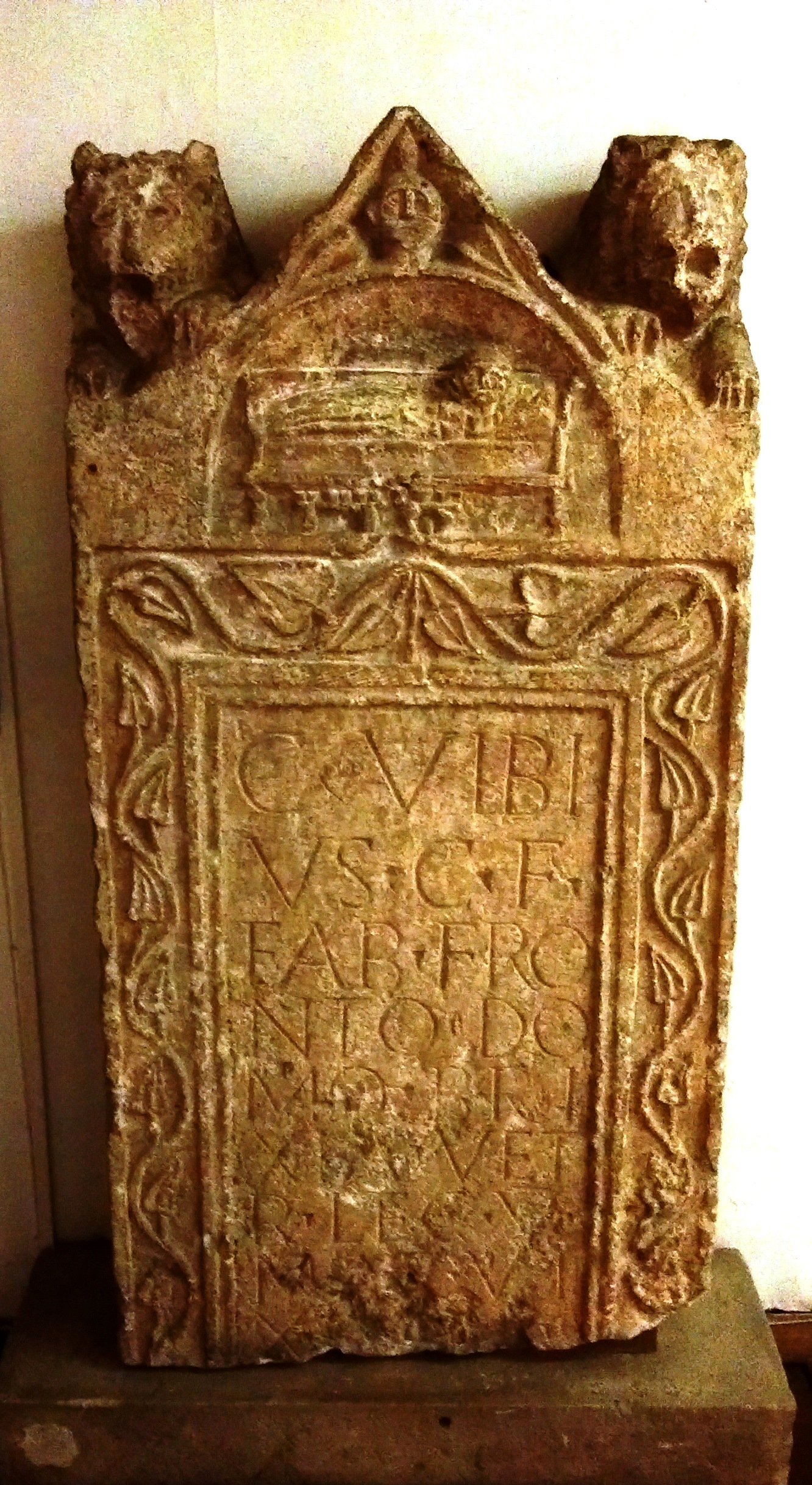 Stella of Caius Vibius Fronton, a veteran of V Macedonian legion, I century burial feast Baikal, Pleven province